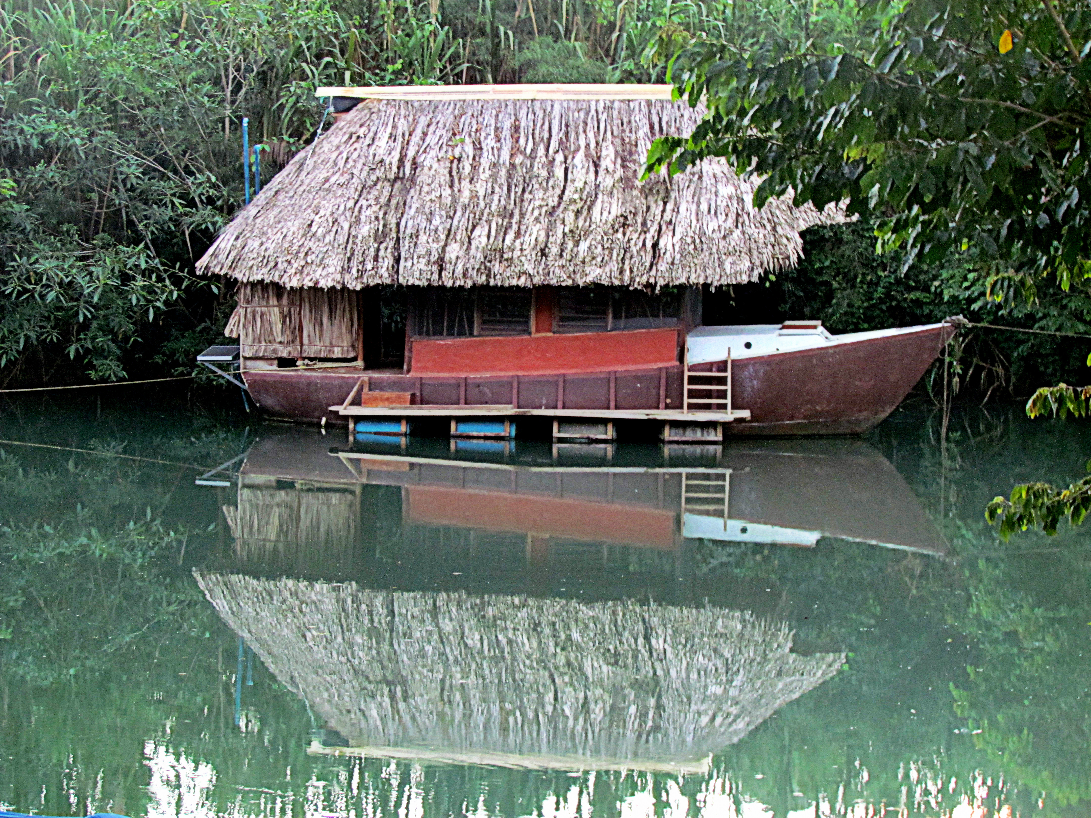 Houseboat on the Moho River in Toledo District, Belize